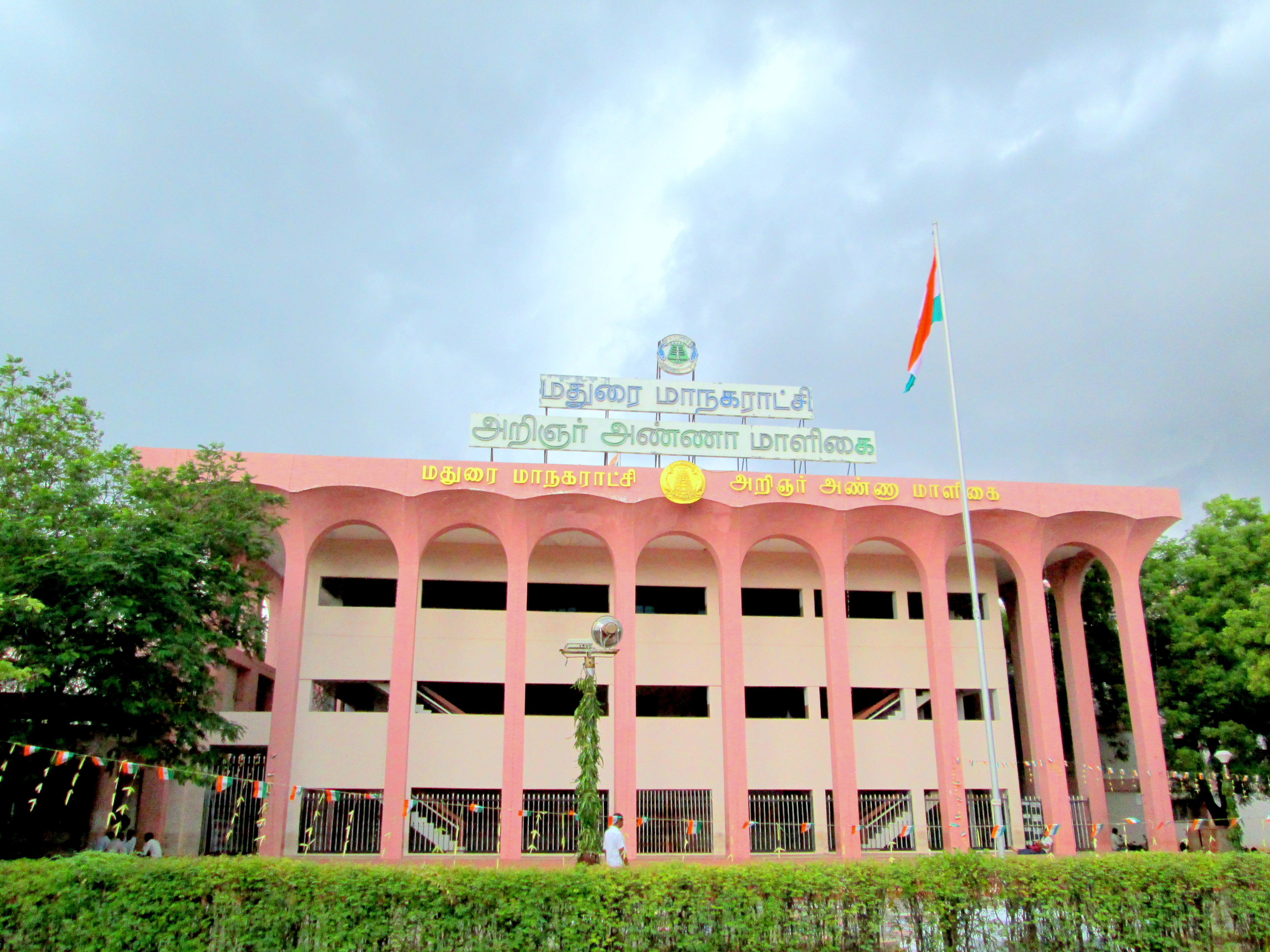 Madurai Corporation Building